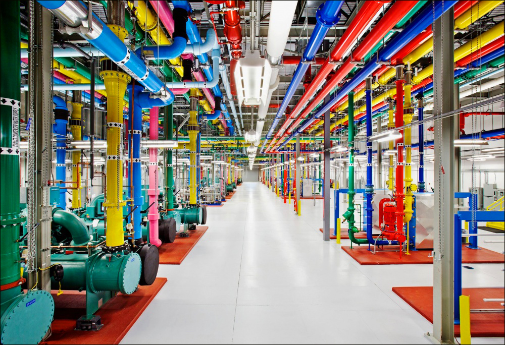 Piping network of a mechanical sub-station.